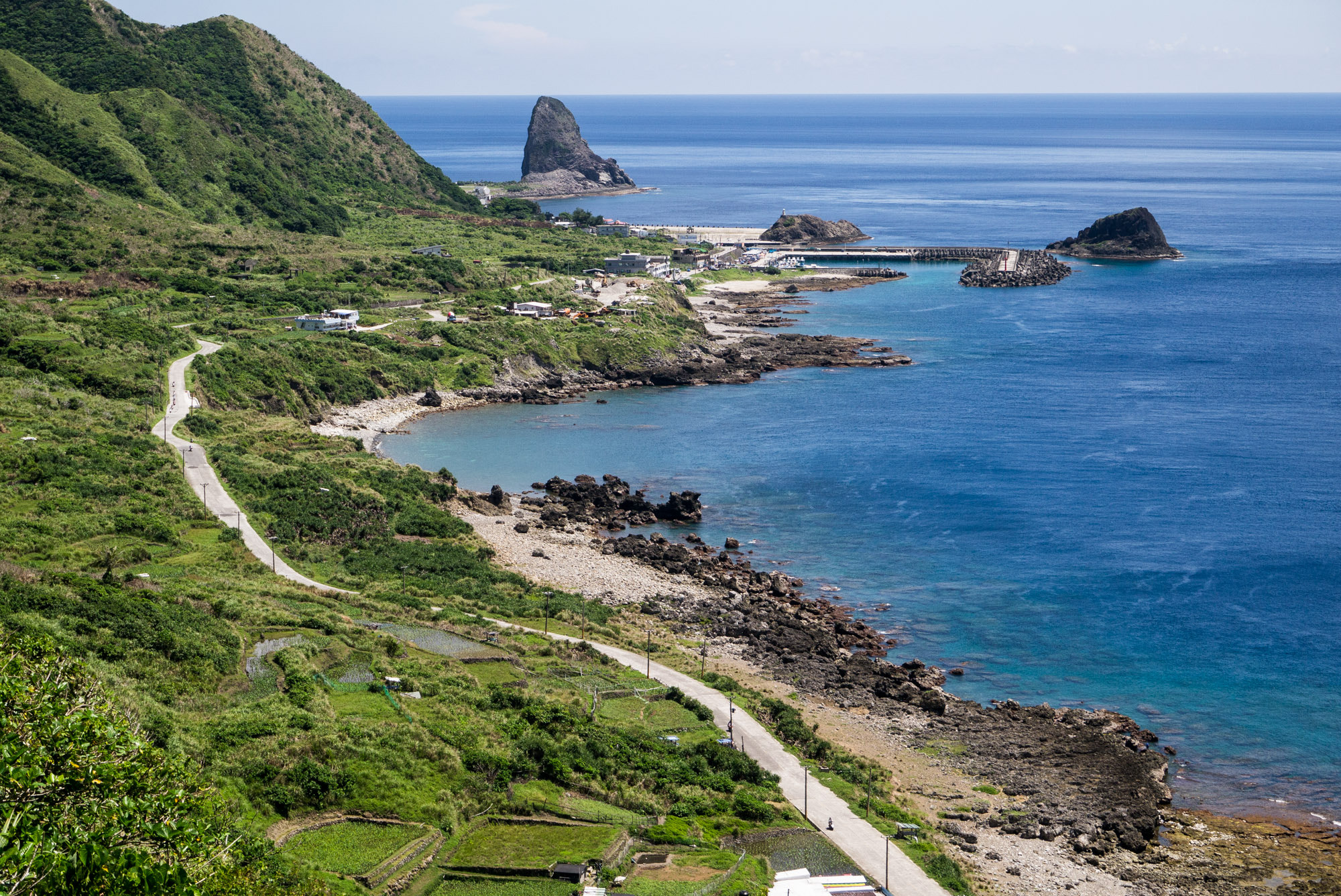 500px provided description: The Lanyu island [#Taiwan ,#Taitung ,#Lanyu ,#Orchid island]